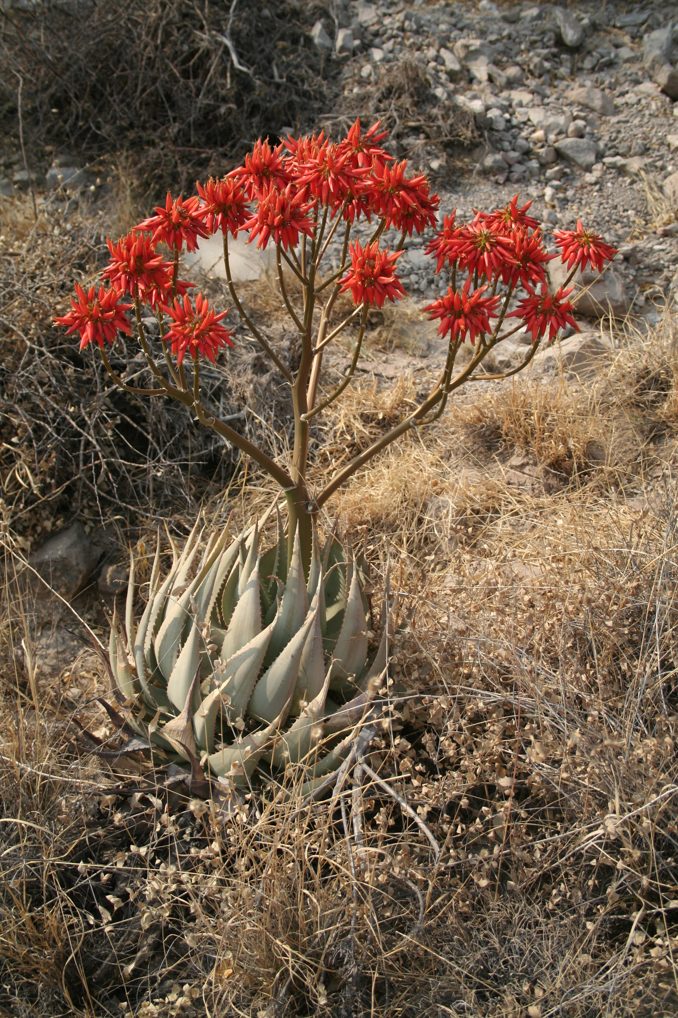 Aloe hereroensis, Namibia, near Rehoboth